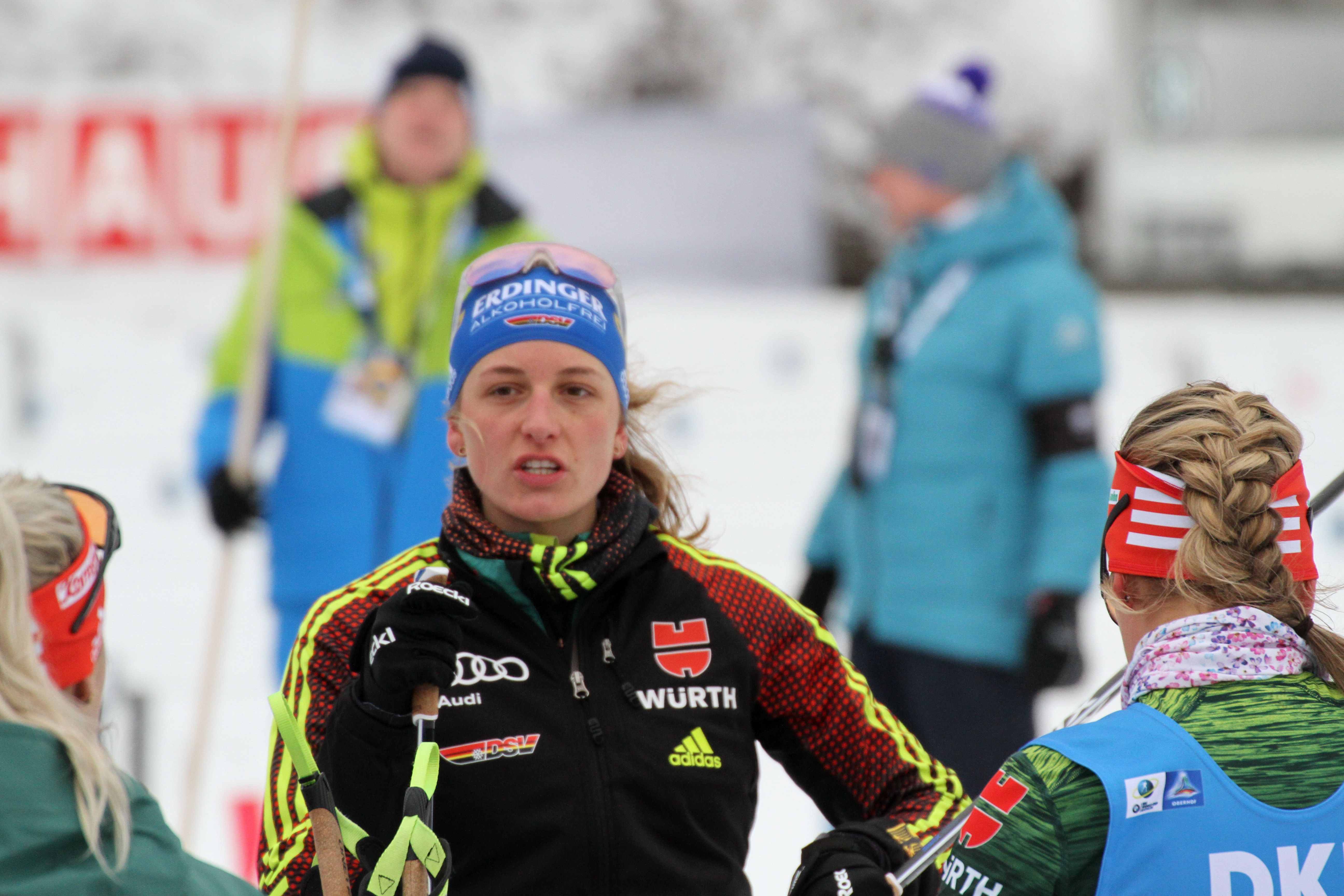 2018 Oberhof Biathlon World Cup - Sprint Women